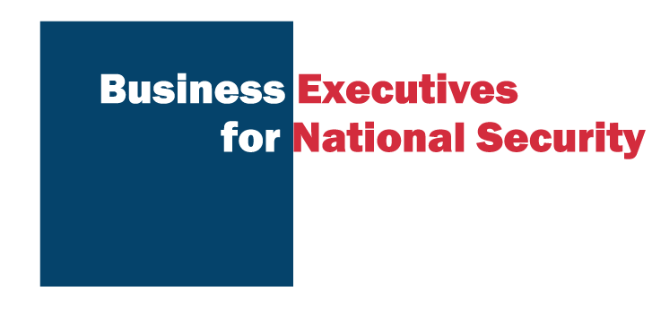 BENS logo